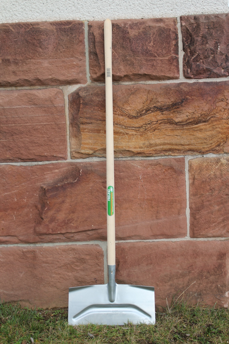 Scharre, tool to remove mush, snow and ice